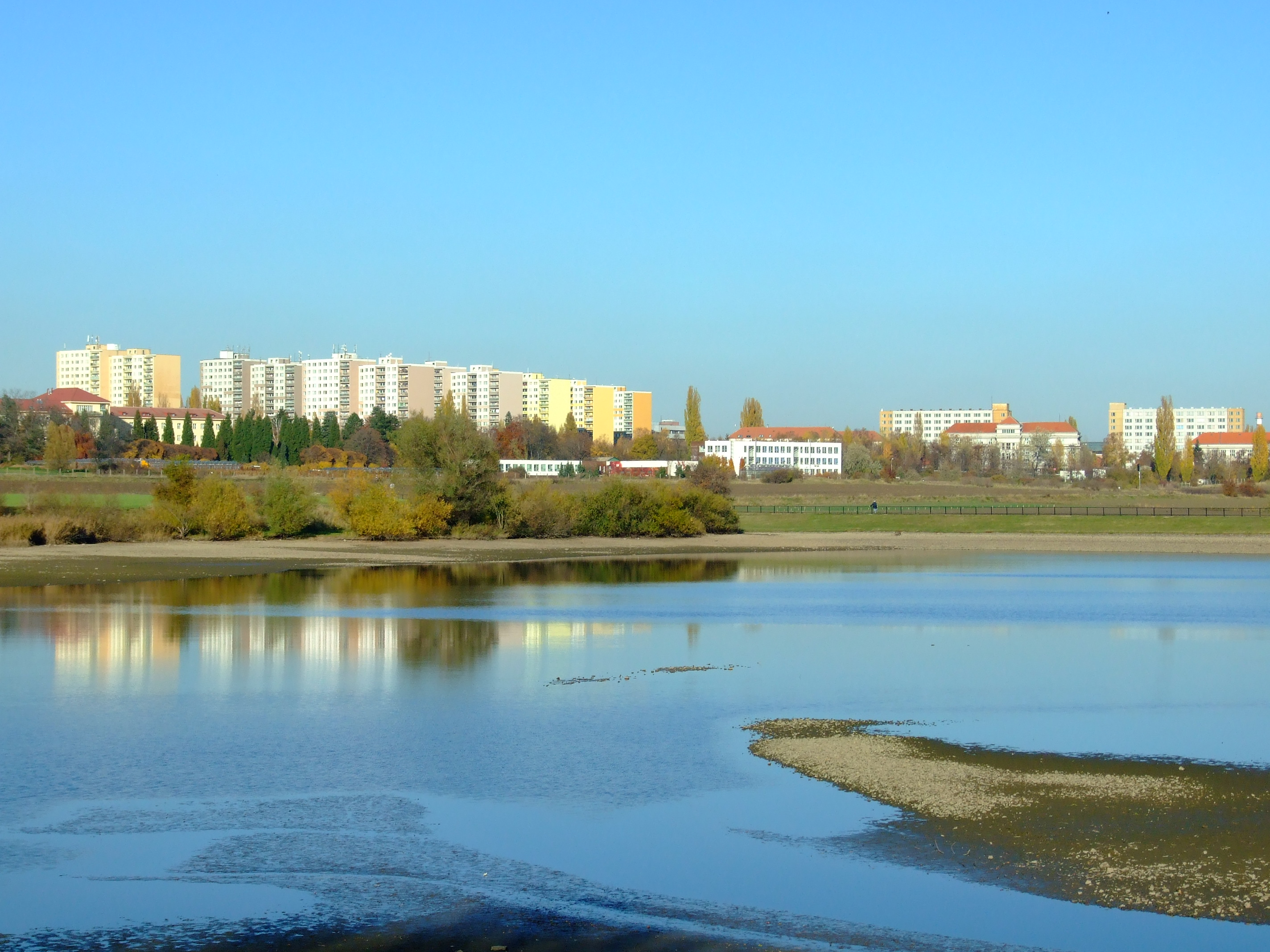 Outlook from Jiviny reservoir to the Sídliště na Dědině esteate